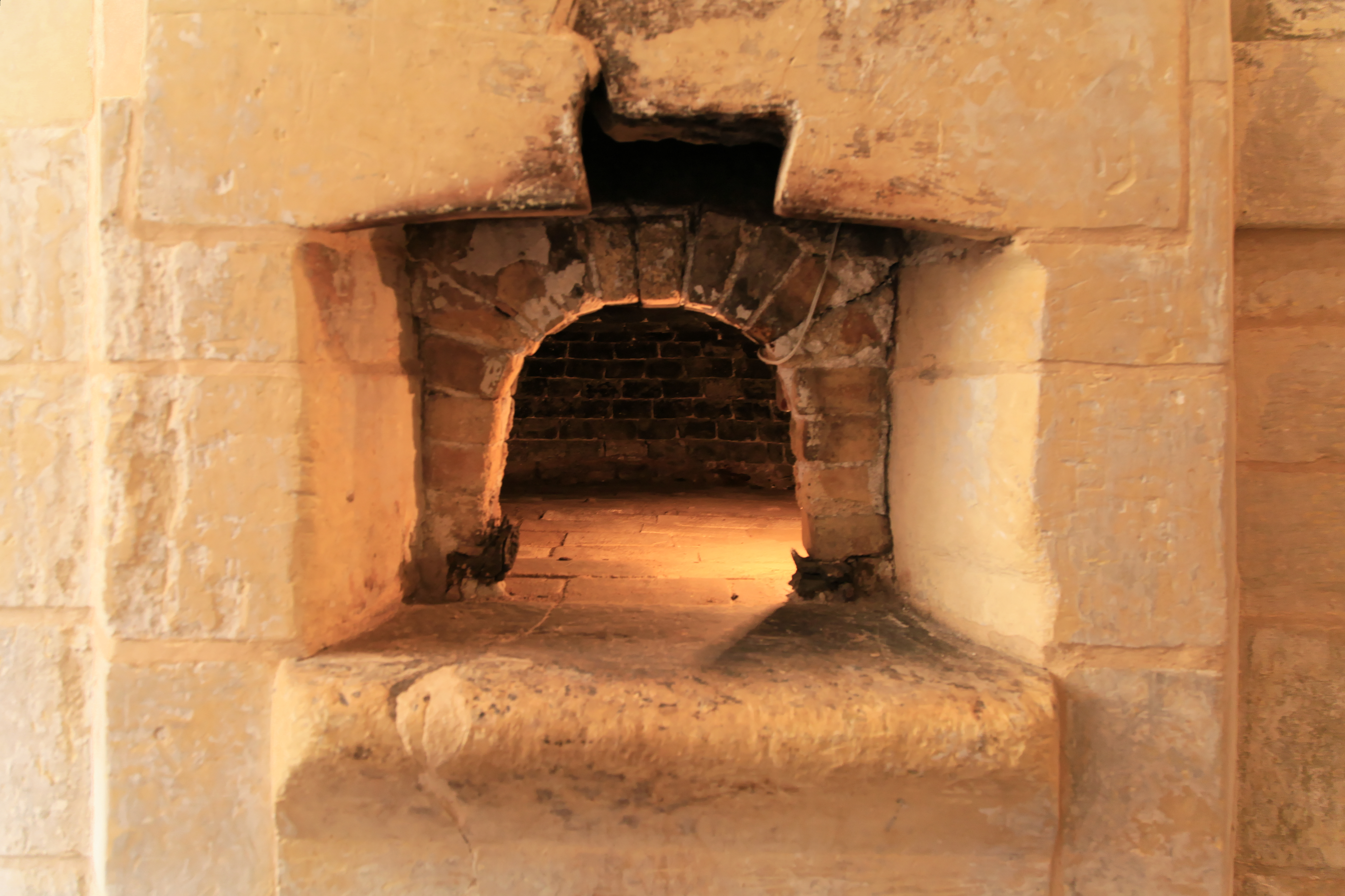 Inquisitor's Palace, Triq il-Mina l-Kbira in Birgu, Malta